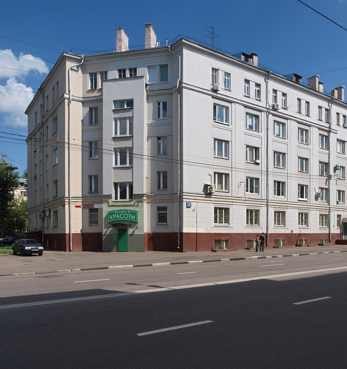 Dubrovka housing project in Moscow, 1926-1927.